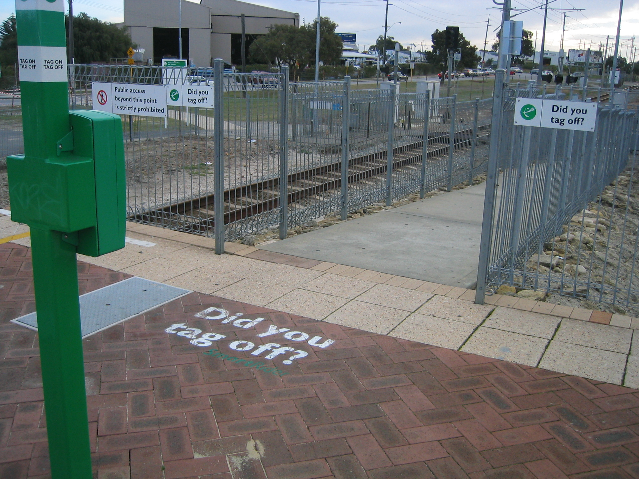 Several "Did you tag off?" notices are displayed at the fence and the ground for the SmartRider users.